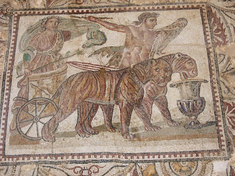 Mosaic in Cherchell museum. Chariot pulled by big cats, likely tigers.